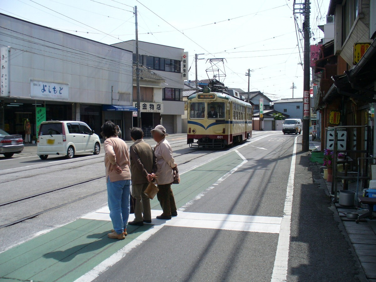 Gomen-Nakamachi tramstop of Tosa Electric Railway. Green area on the pavement shows boarding position of the tramstop.